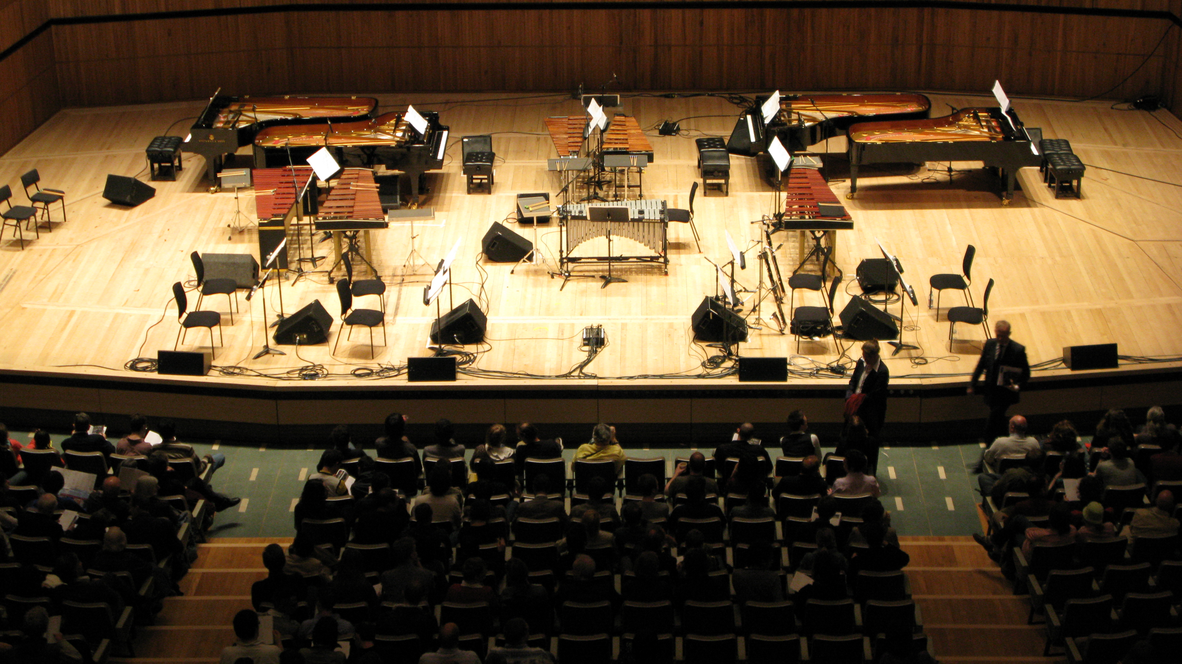 set-up of Music for 18 musicians by Steve Reich